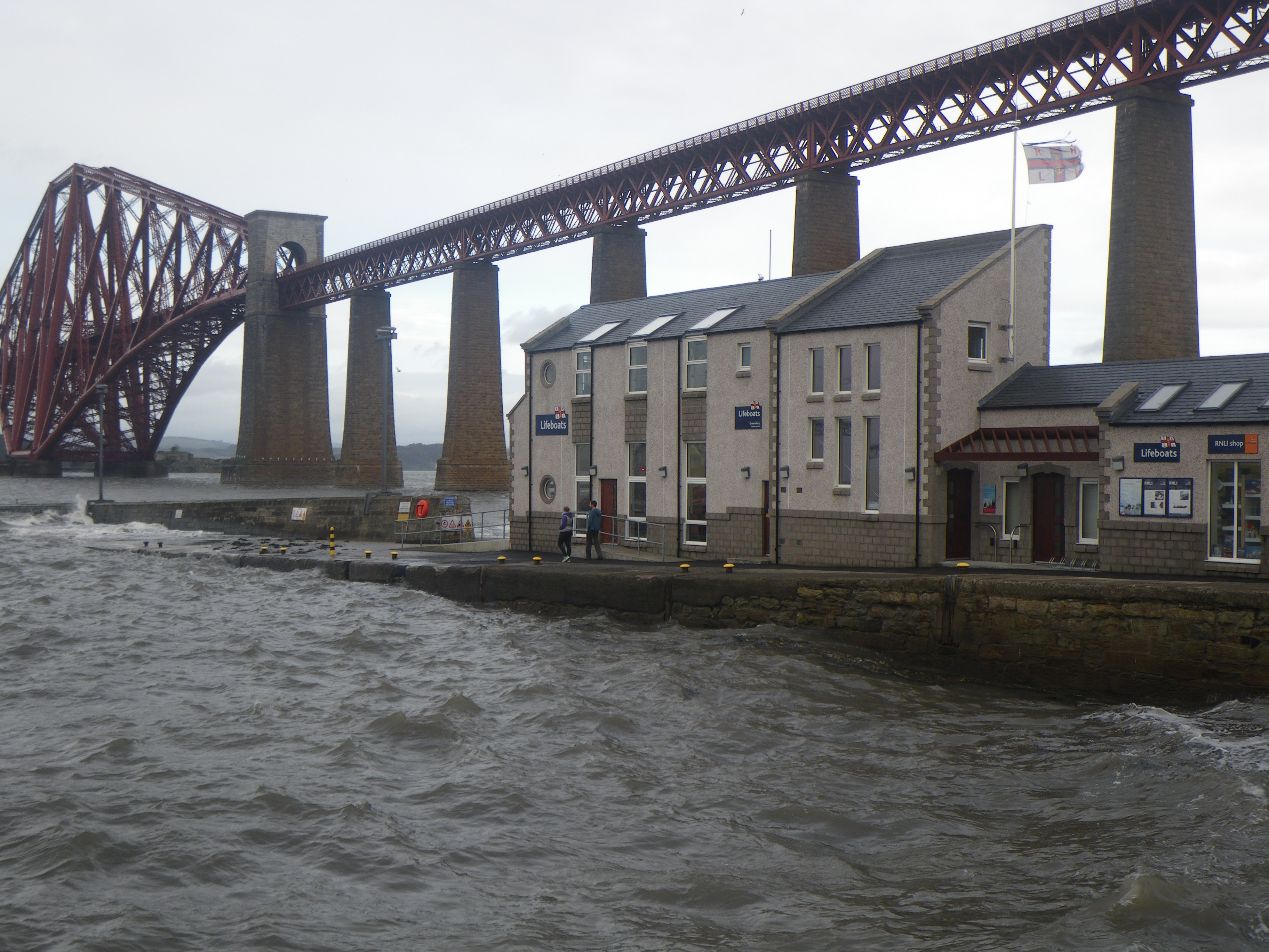 New Queensferry station